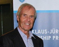 K.J. Bathe, photo taken in February 2016